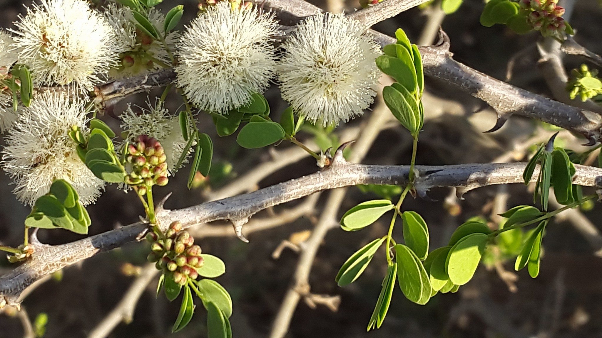 Acacia mellifera subsp. detinens